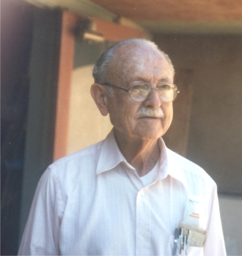 Don Dod portrait